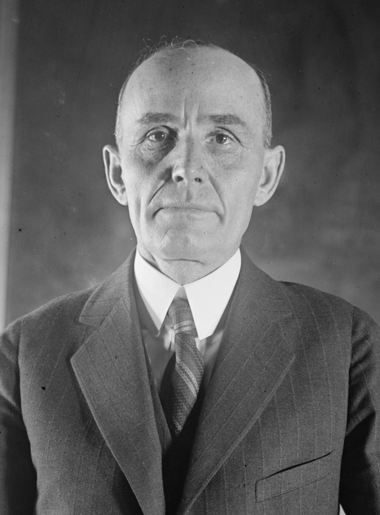 Wm. M. Jardine, Secty. of Ag., 3/5/25